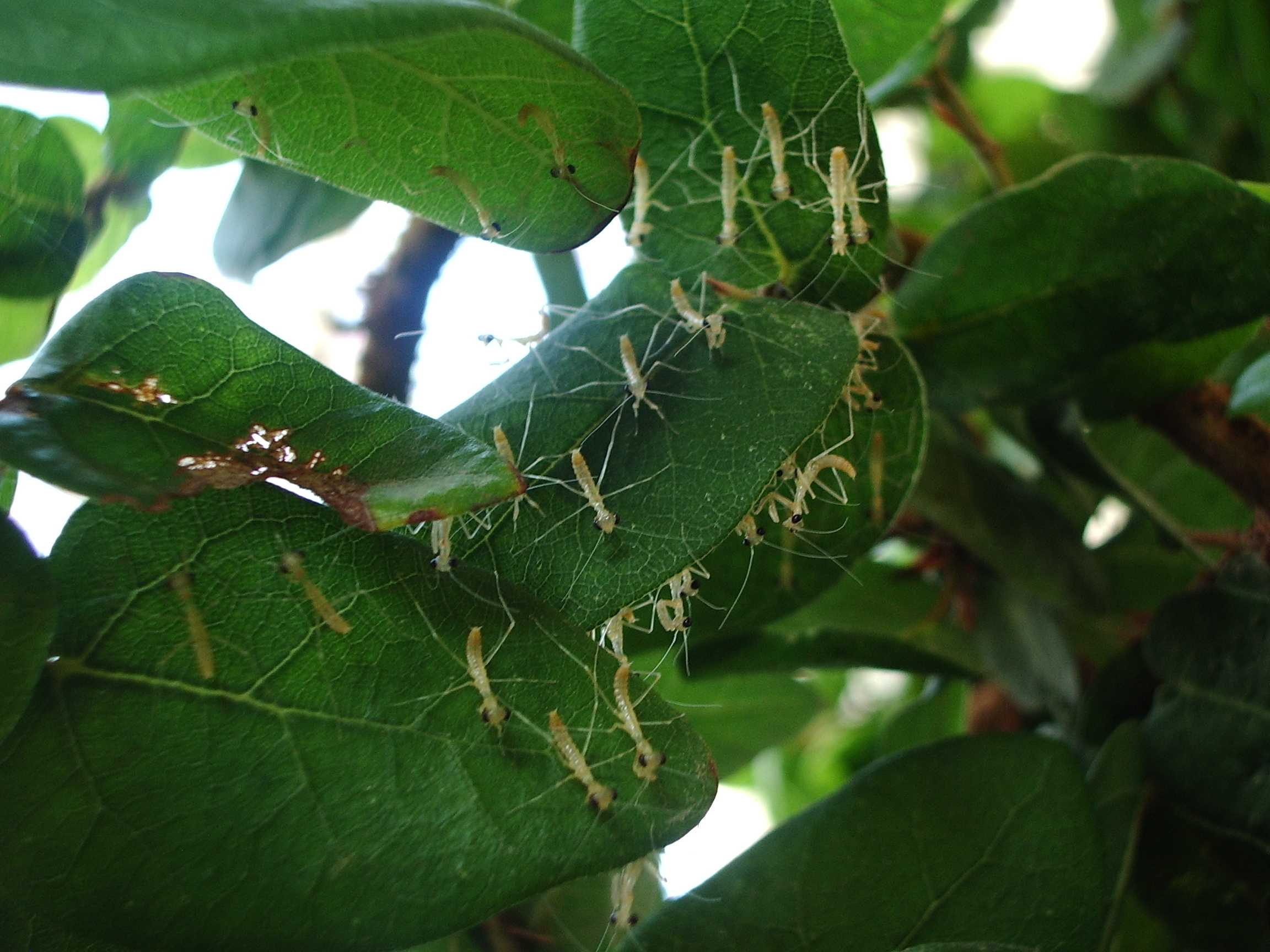 Sphodromantis viridis (Green Mantis) nymphs, about 4mm long, clustered on the bottomside of a climbing plant. Photographed May 25th 2006 in Tel-Aviv, Israel. I am the photographer and I give permission for use of this picture, though I would appreciate being notified if you intend to use it.